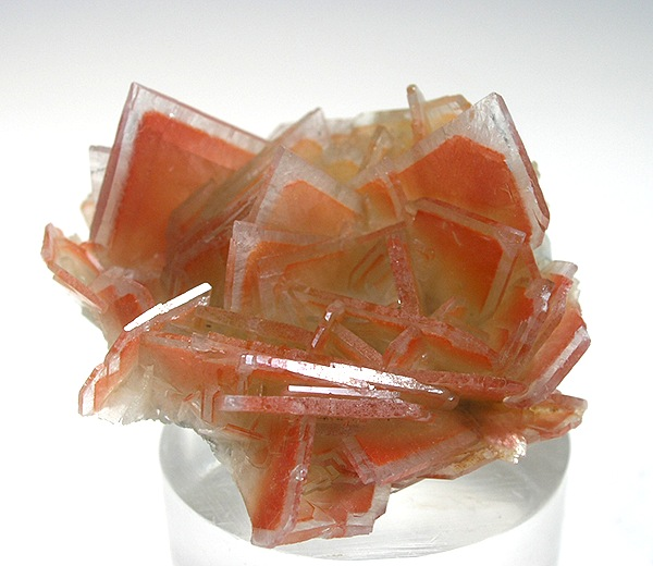 Baryte, Realgar Locality: Baia Sprie (Felsöbánya), Maramures County, Romania (Locality at ) A VERY RARE old specimen with rich red inclusions caused by the presence of realgar during crystal growth. Crystals of this quality, and in clusters no less, are extremely rare. 5 x 4.6 x 2.8 cm